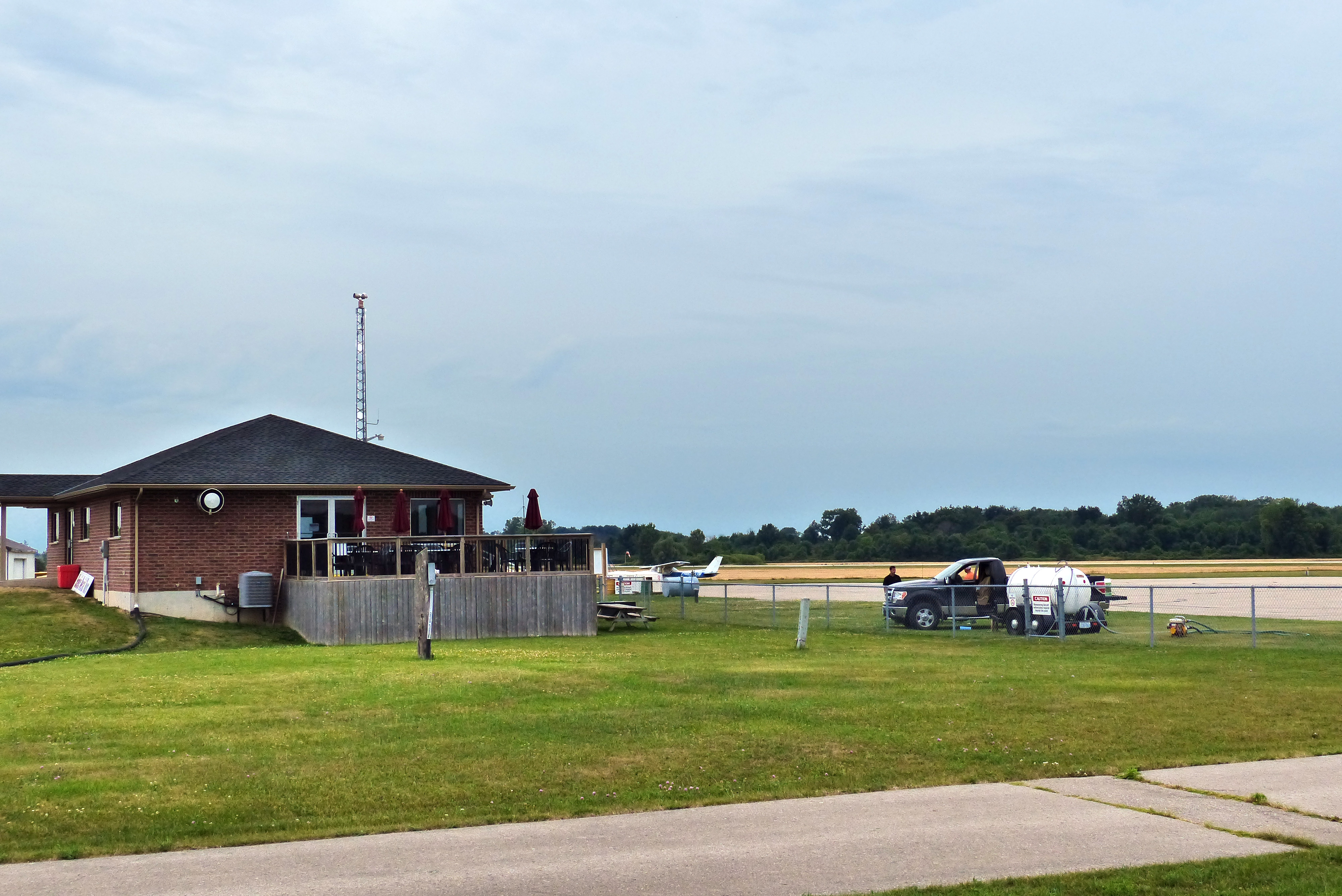 The terminal building and apron at Tillsonburg Regional Airport, Tillsonburg, Ontario, Canada. The pickup truck and tank on the apron are there to refill the hopper in an agricultural spray airplane operating at the airport.